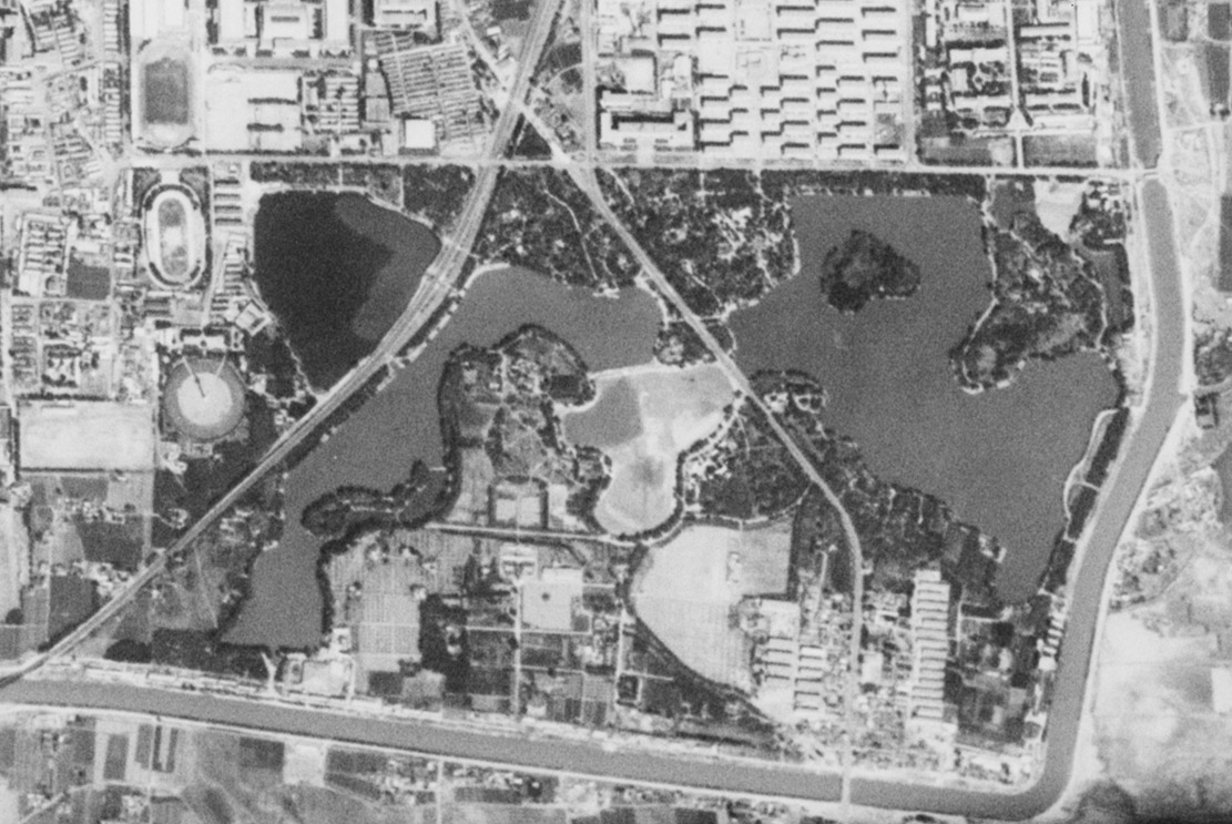 Longtan Park, Beijing. Spatial tentatively corrected. 中文（中国大陆）: 龙潭公园。空间上尝试性矫正过。